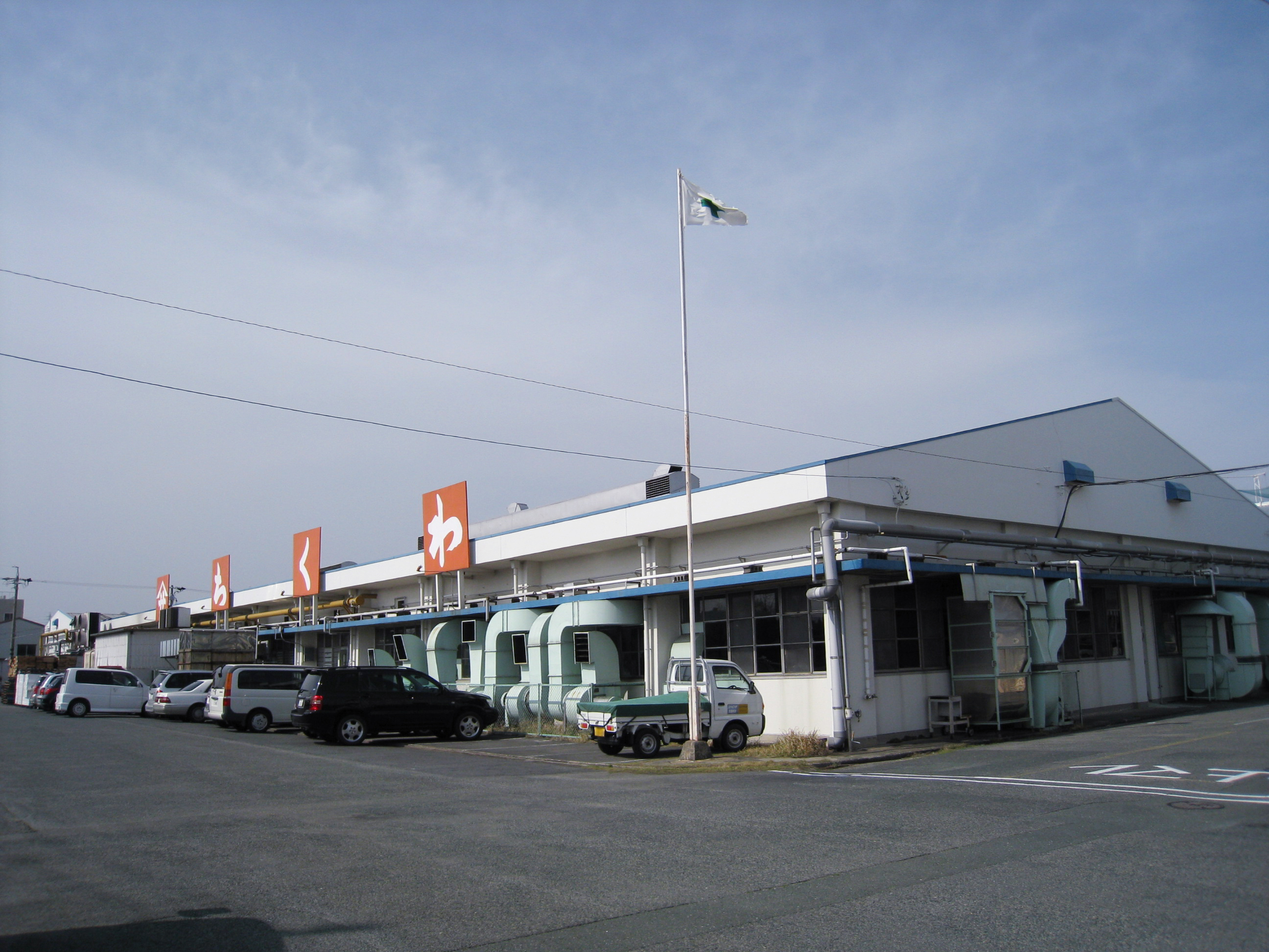 Headquarters of Yamasa Chikuwa (ヤマサちくわ), located at Hashiguchi, Shimojicho, Toyohashi, Aichi, Japan